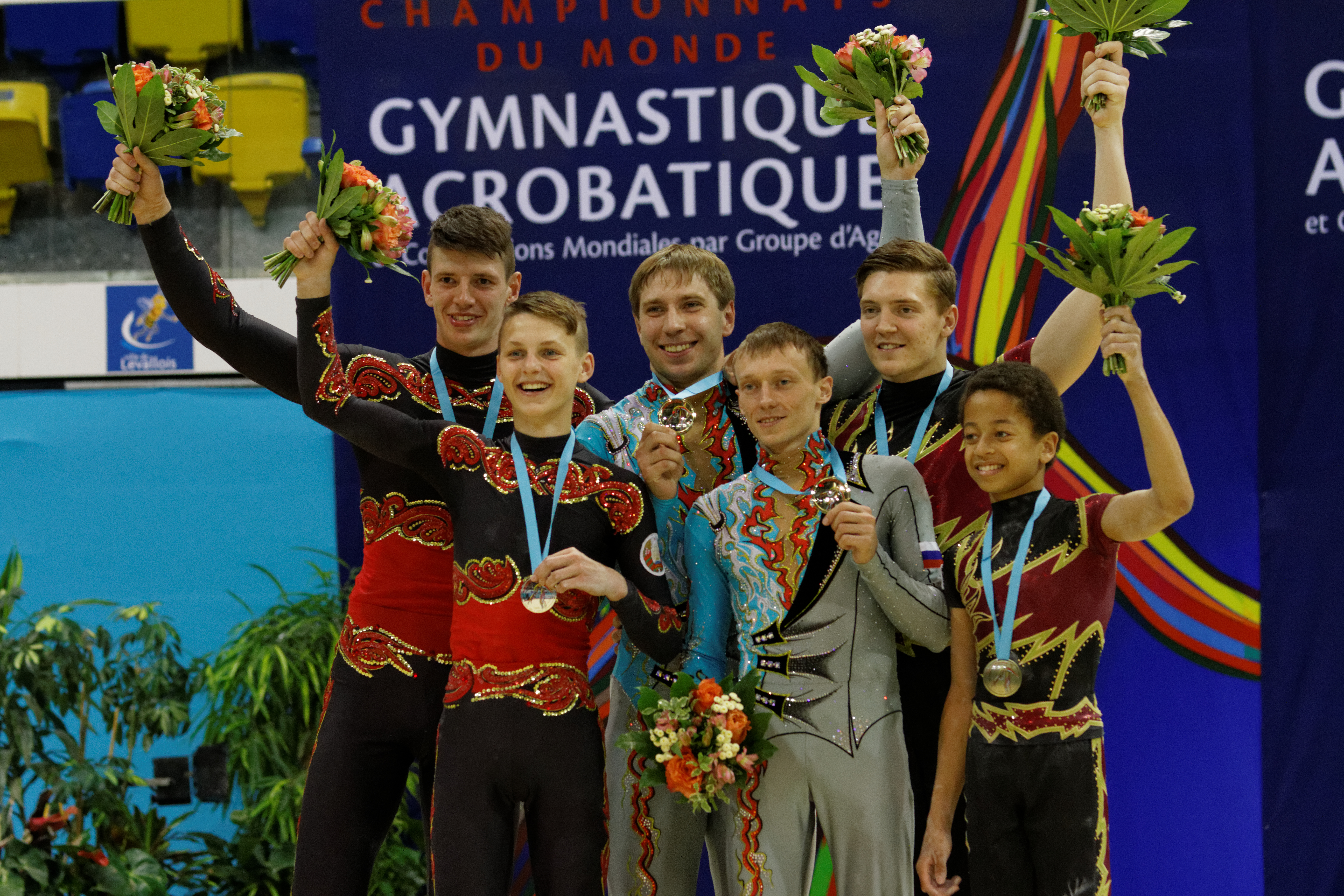 2014 Acrobatic Gymnastics World Championships, 10th-12 July, Levallois-Perret, France. Awarding ceremony.